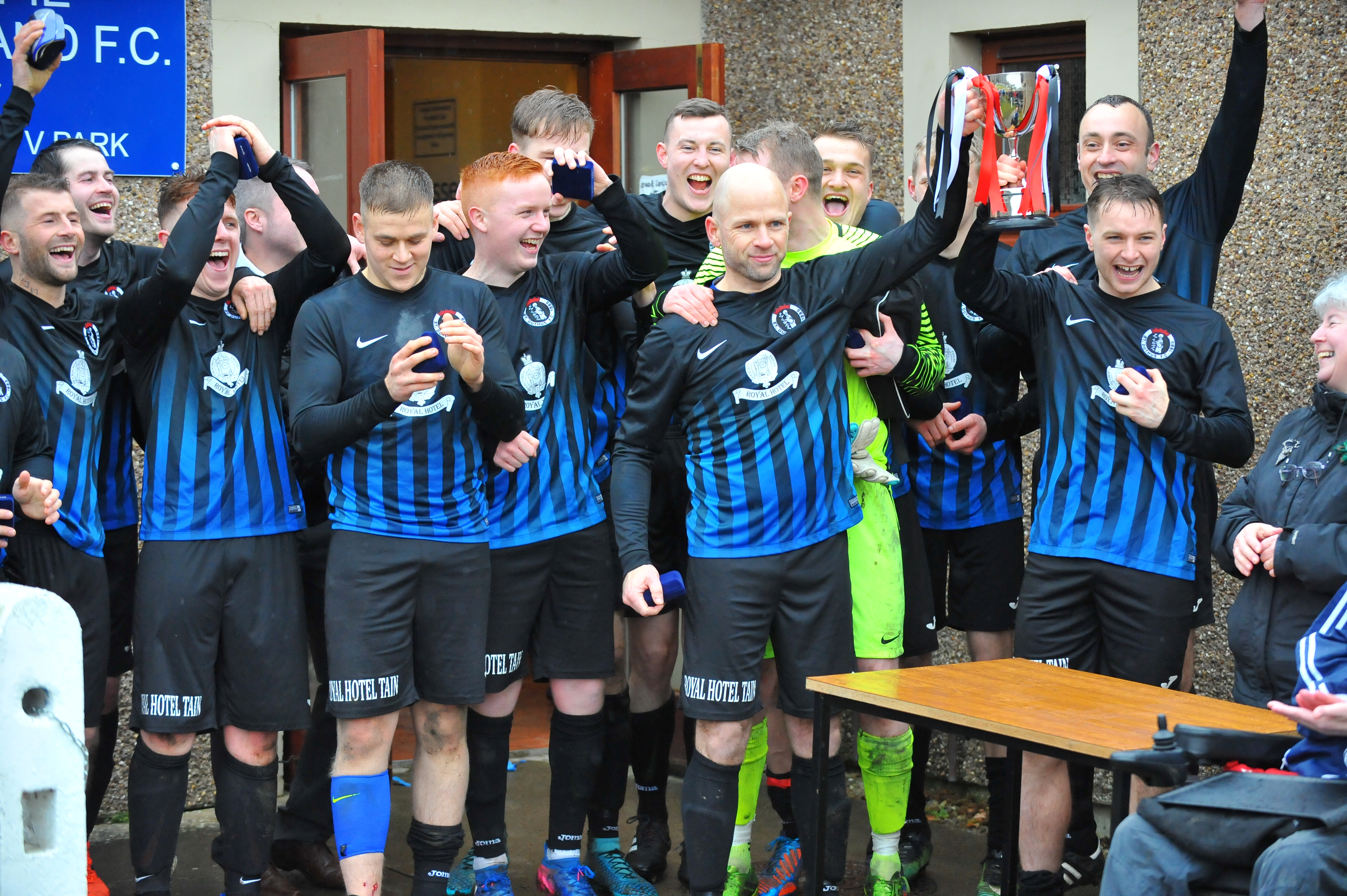 St Duthus F.C., winners of the North Caledonian Cup fo 2017-18.